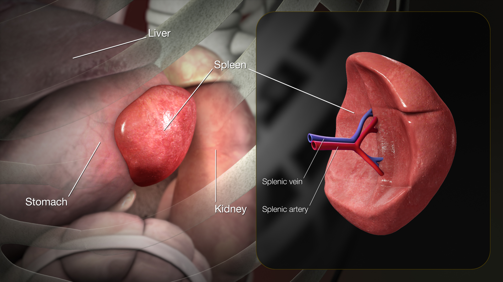 3D medical animation still showing structure of as well as location of the spleen in human body.